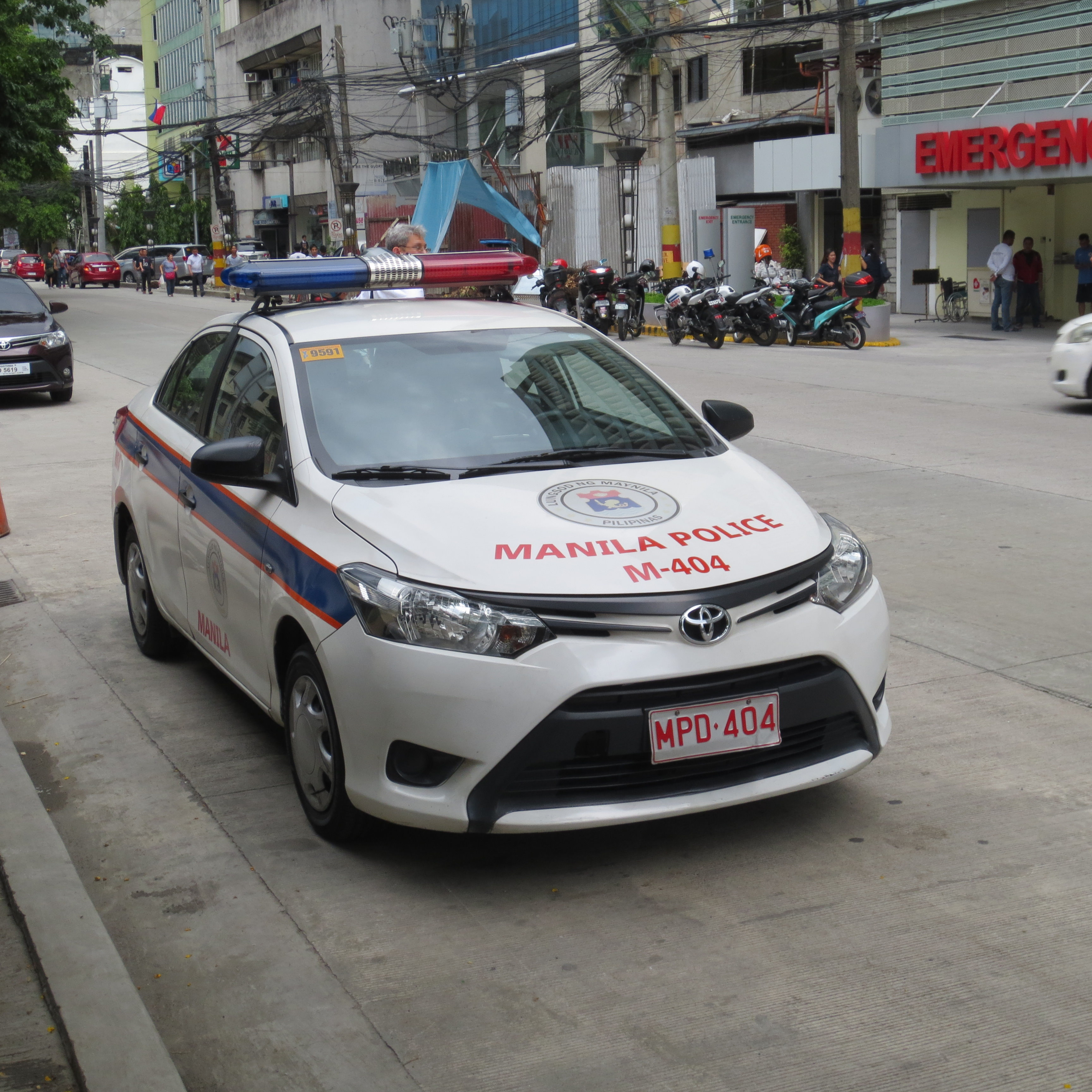 Toyota Vios Police car, Manila City Police, Philippines